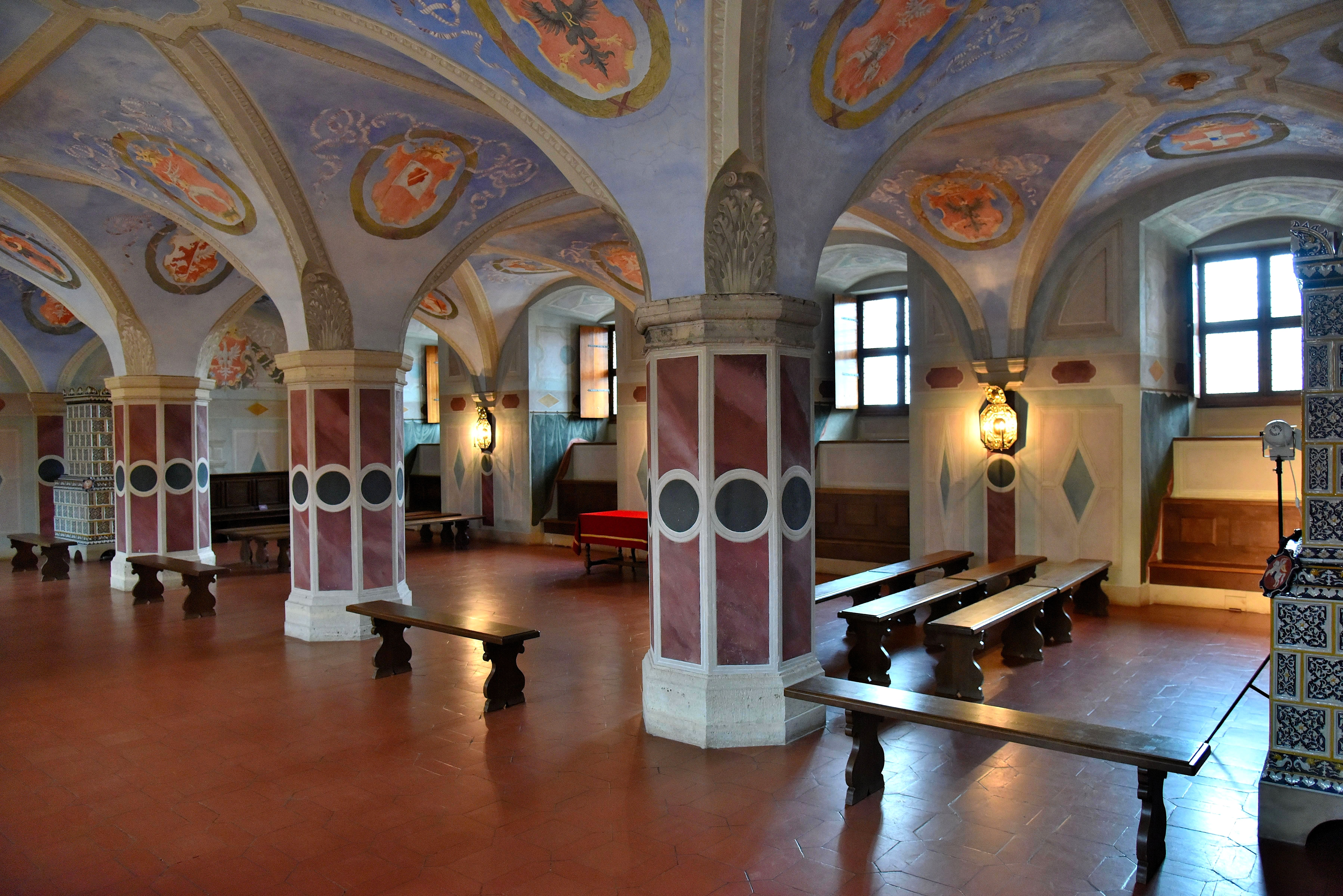 The Former Deputies' Chamber at the Royal Castle in Warsaw